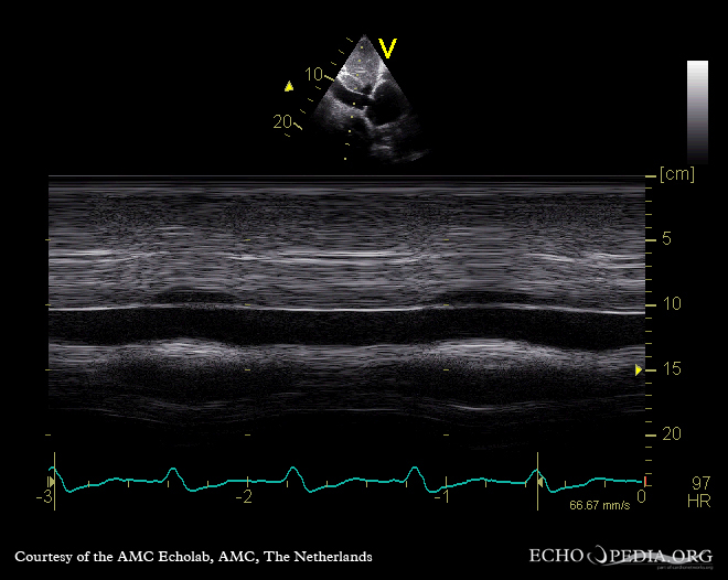 Title: Severe tricuspid regurgitation Case Presentation: Description: Dilated vena cava inferior, no diameter variations during respiration